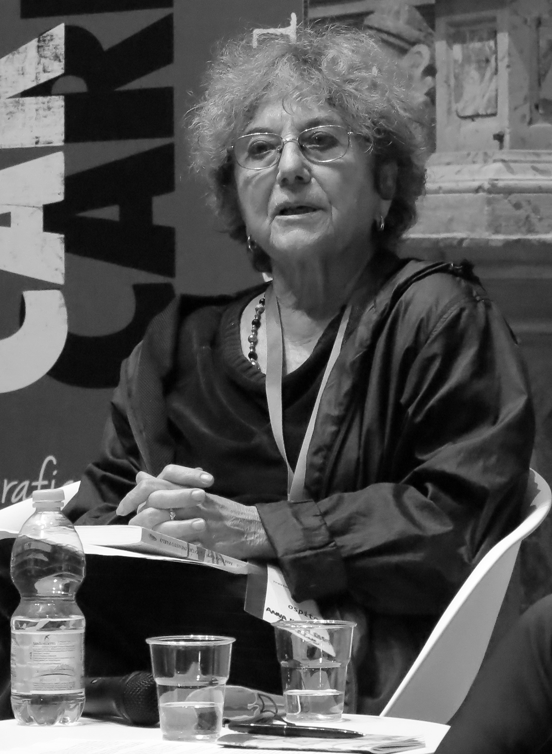 Anna Maria Carpi